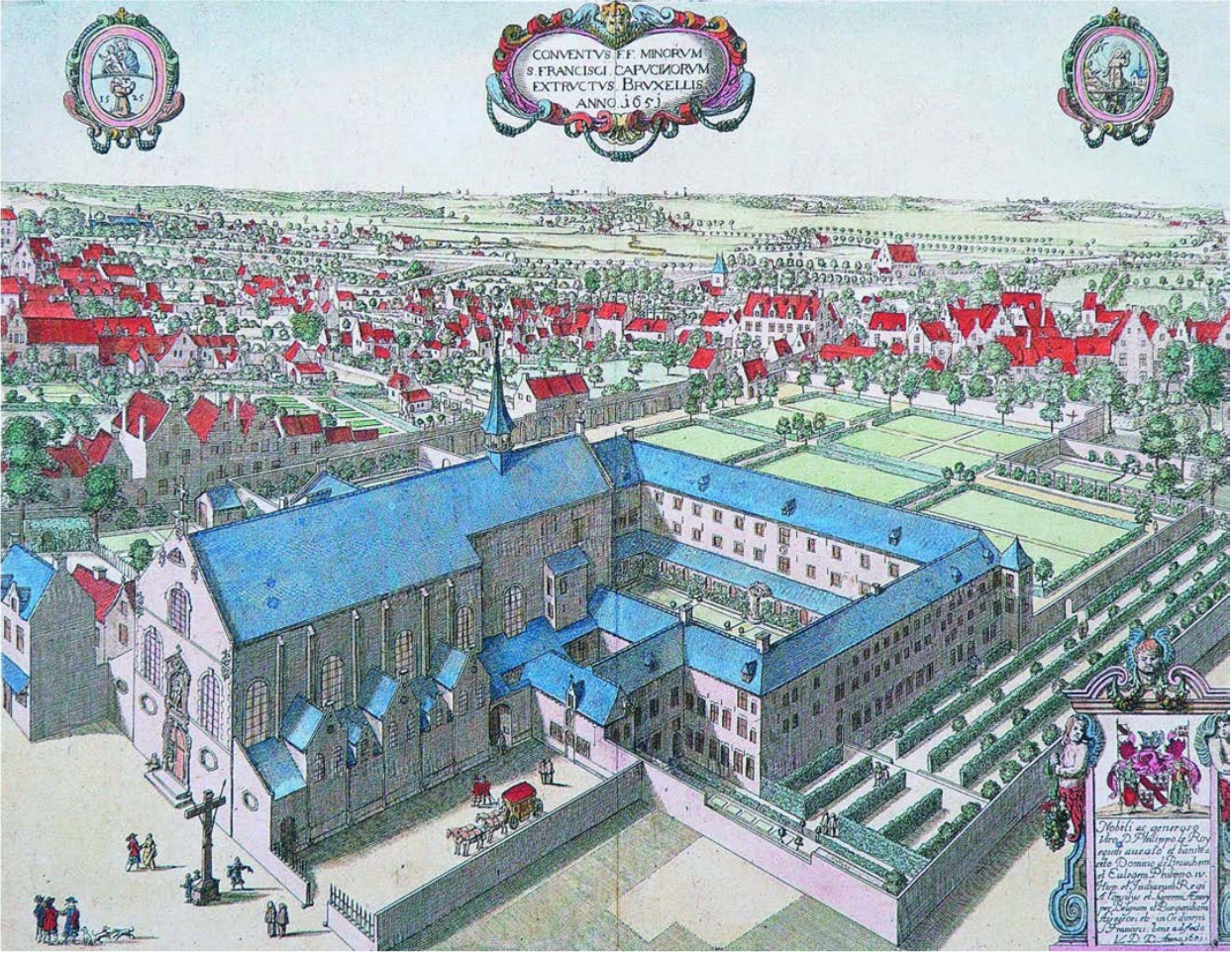 Monastery of the Friars Minor Capuchin in Brussels in 1651. Extracted from Chorographia sacra Brabantiae.